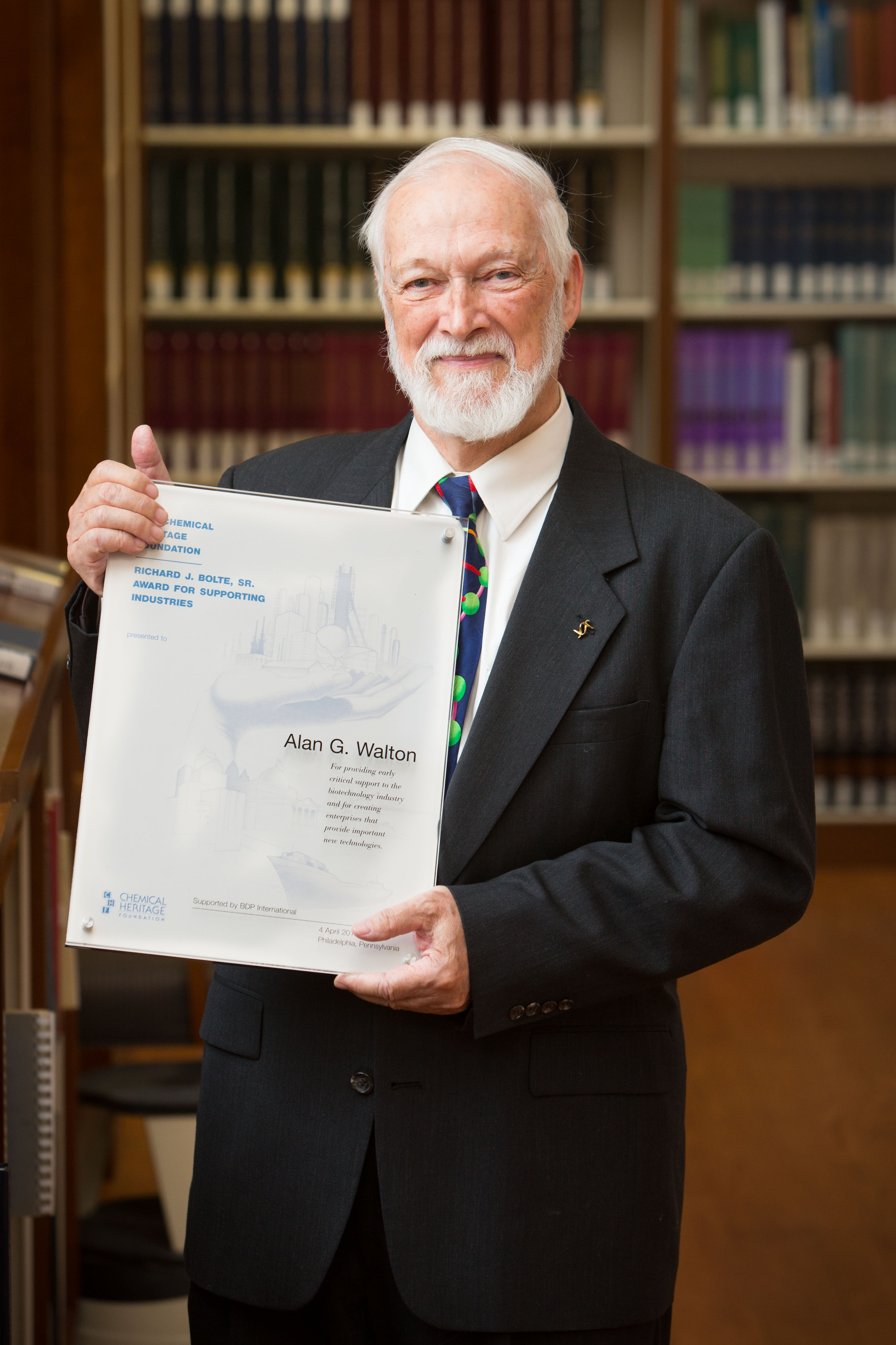 Photograph of chemist Alan Walton, with the 2013 Richard J. Bolte, Sr., Award for Supporting Industries, awarded 4 April 2013, at the Chemical Heritage Foundation.